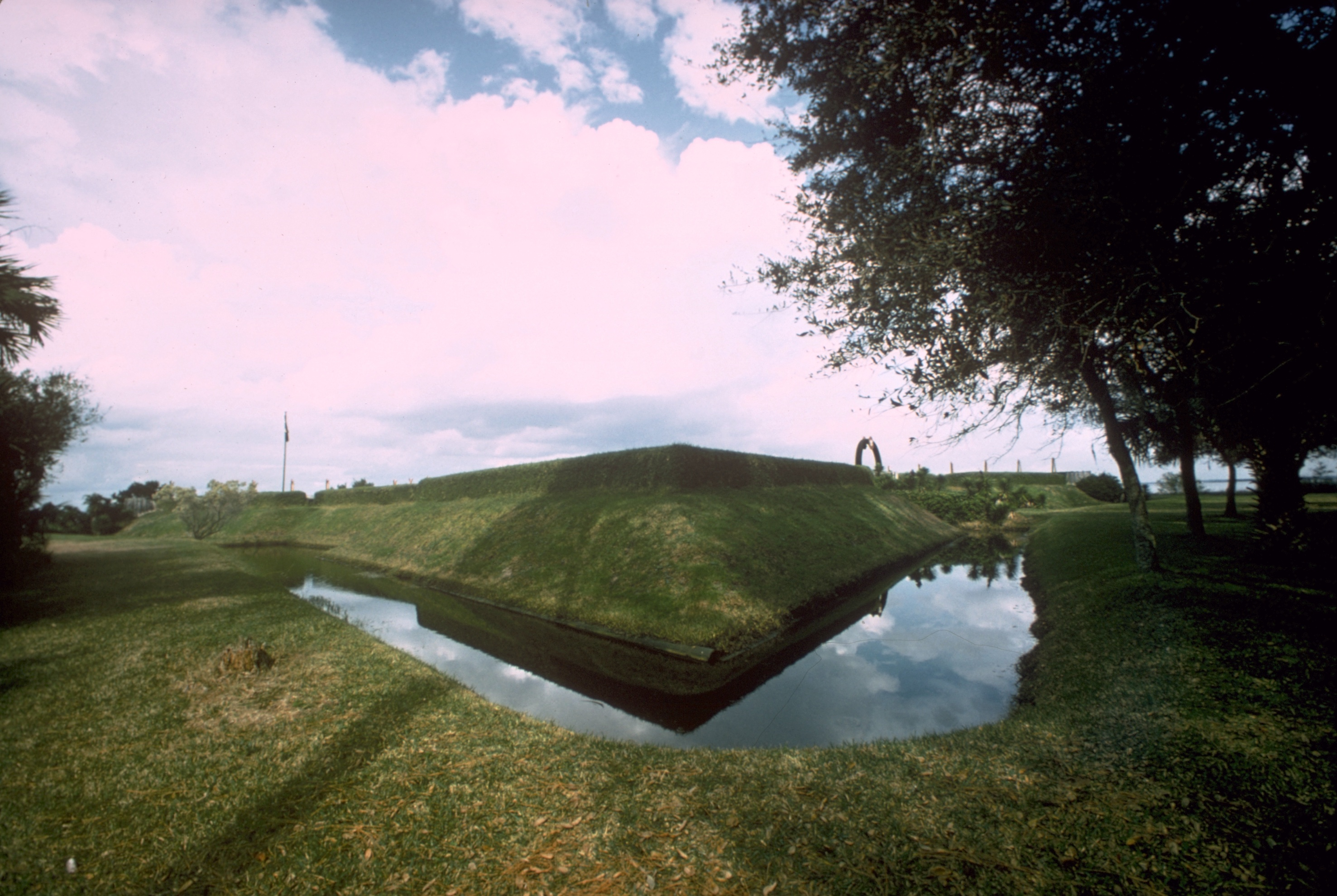 Moat of Fort Caroline National Memorial, Florida